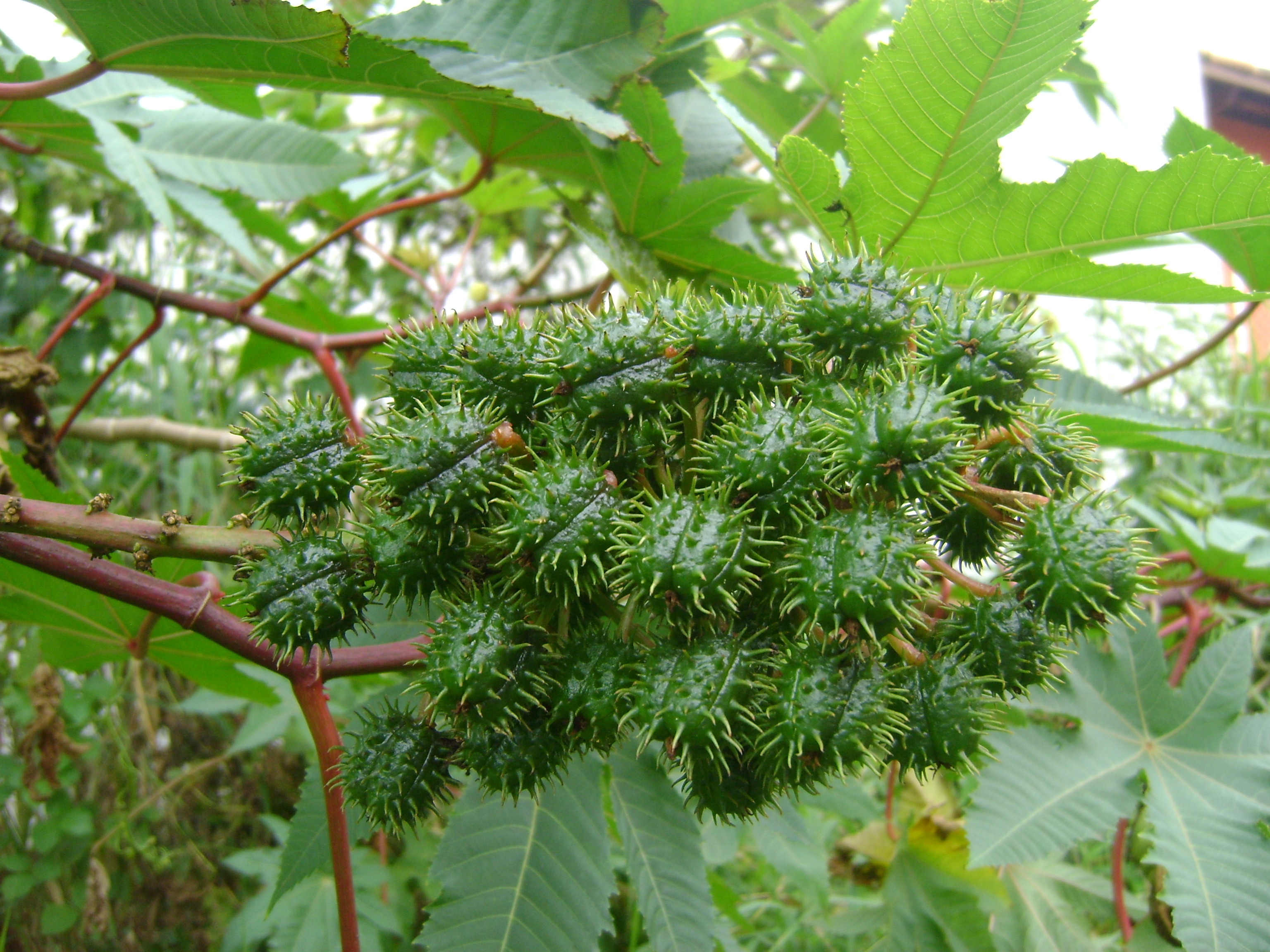 Ricinus communis